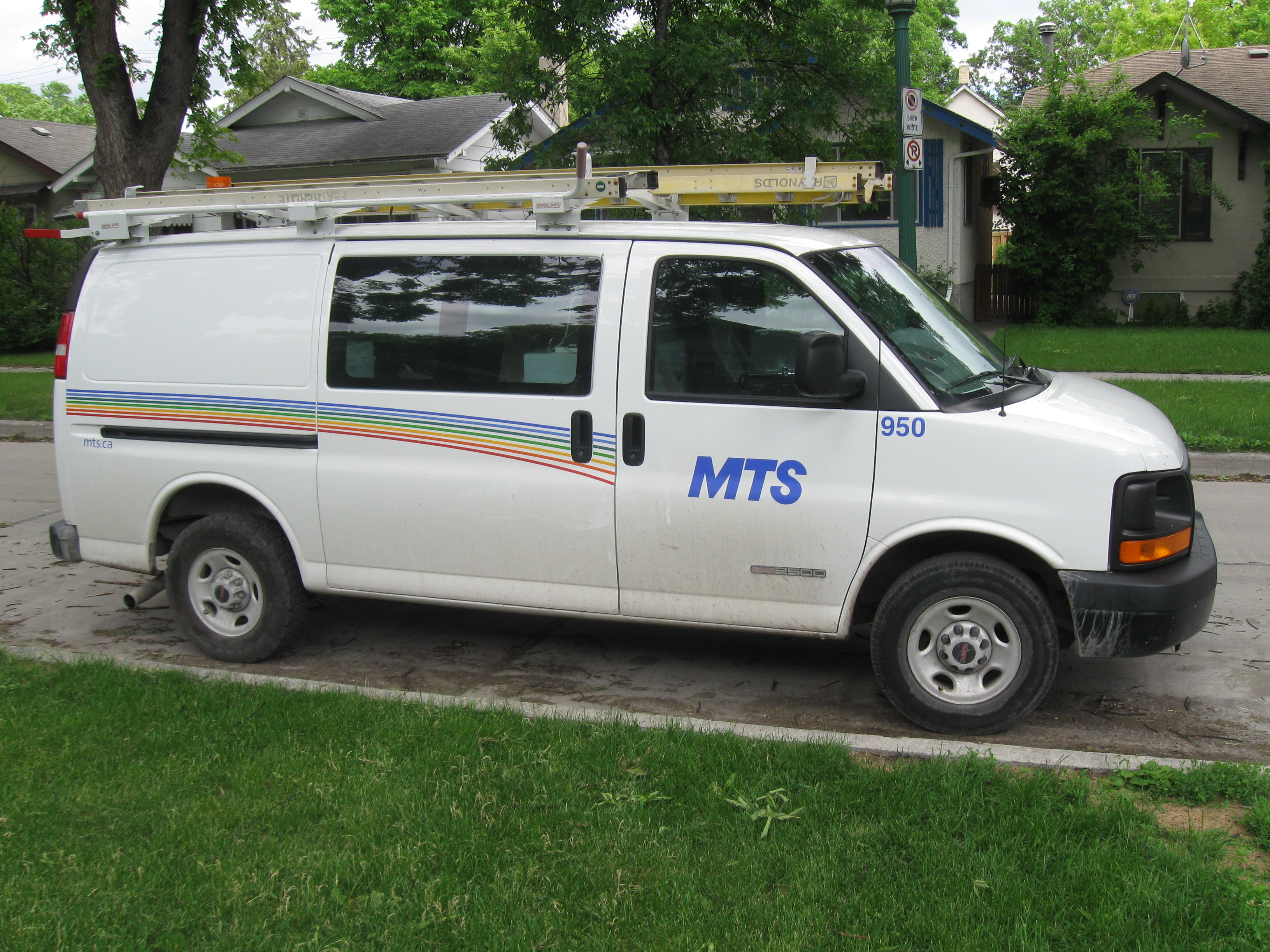 MTS Technician Van.